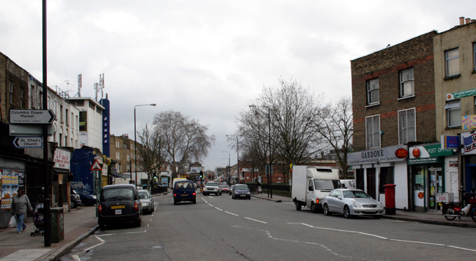 Hackney Road, London. Looking east from Cremer Street.